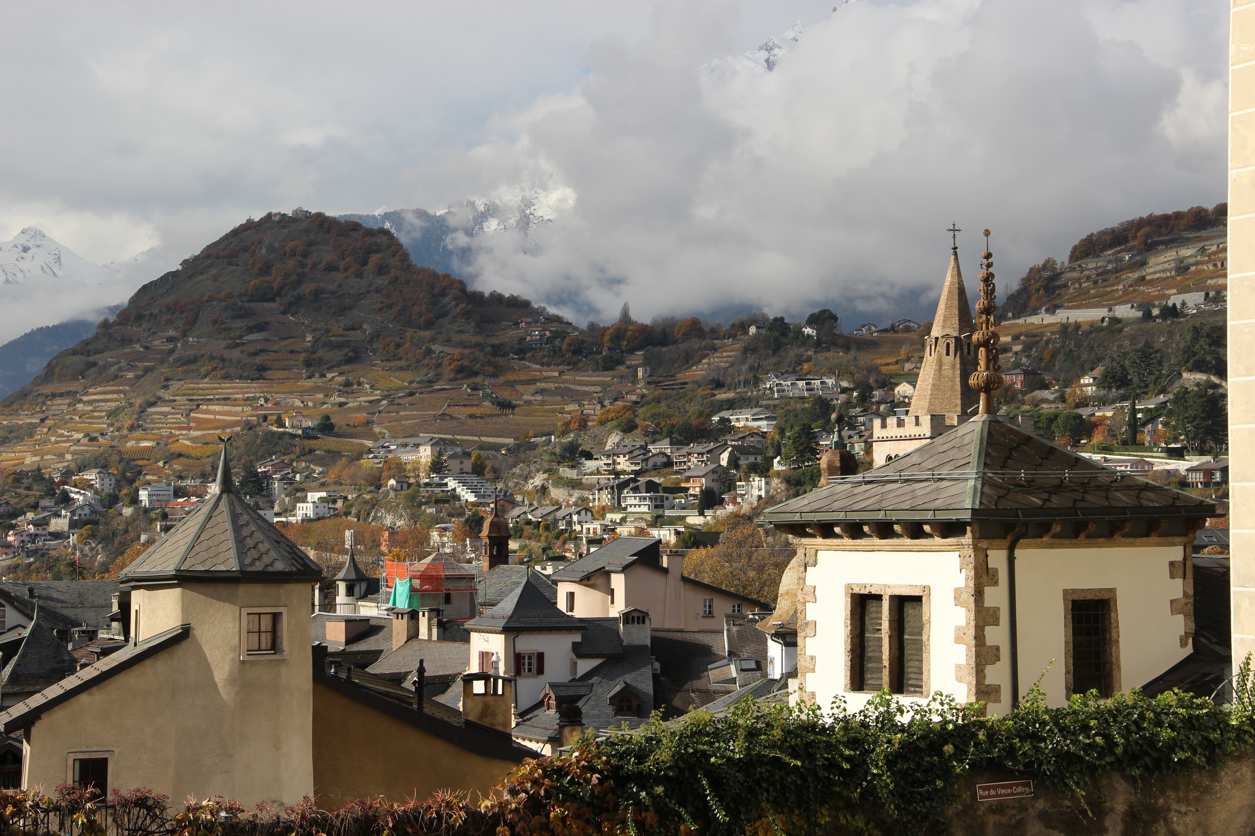 Mont d'Orge seen from Sion